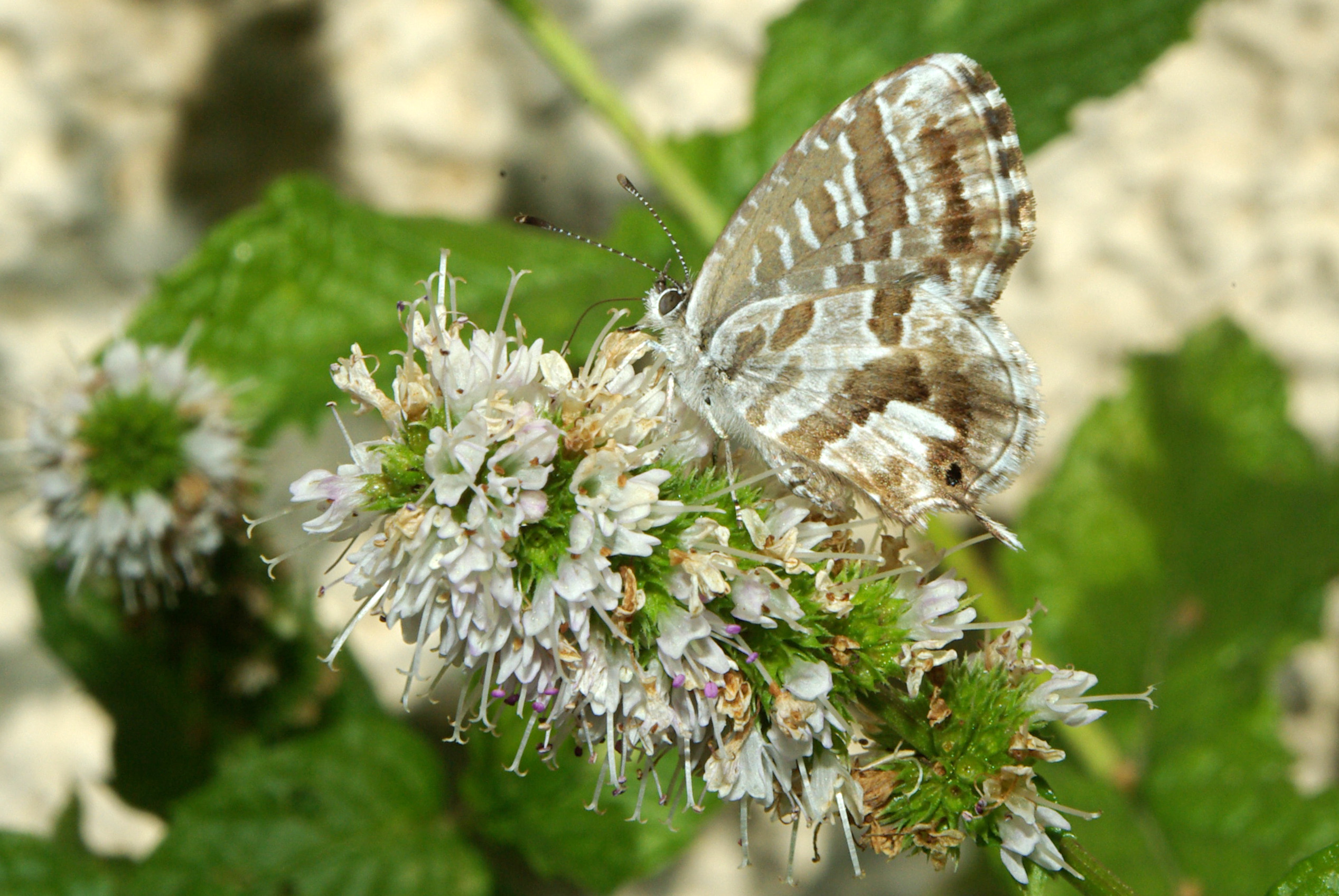 Geranium Bronze (Cacyreus marshalli) on Mentha, Ávila (Spain).